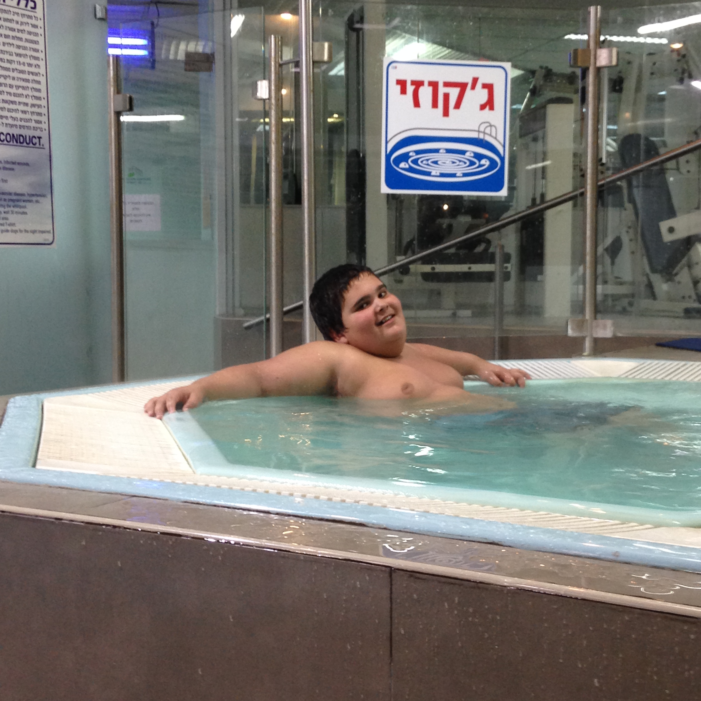 Hot tub